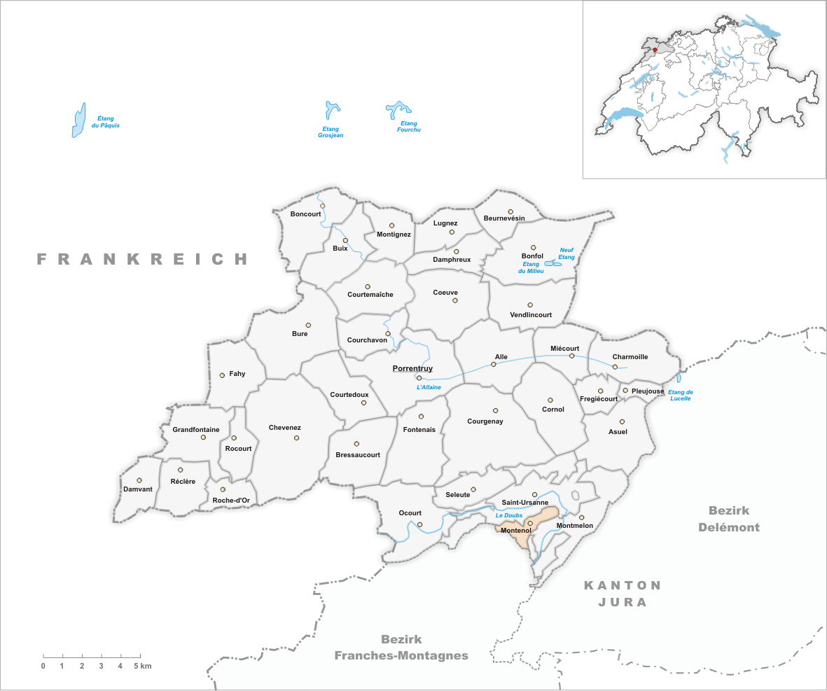 Municipality Montenol